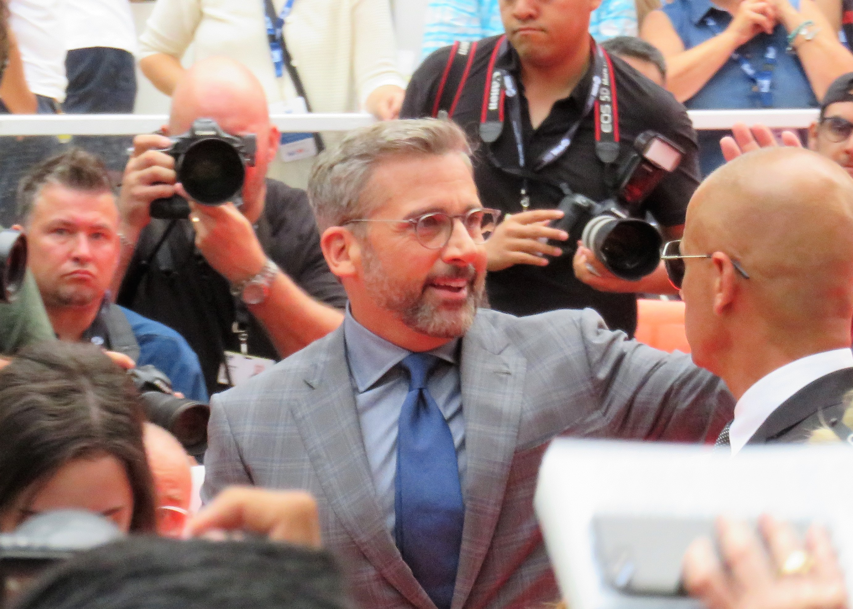 Steve Carell at the premiere of Beautiful Boy, 2018 Toronto Film Festival.